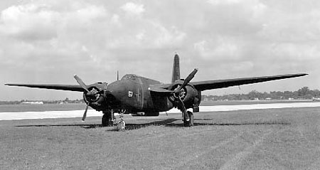 Douglas P-70